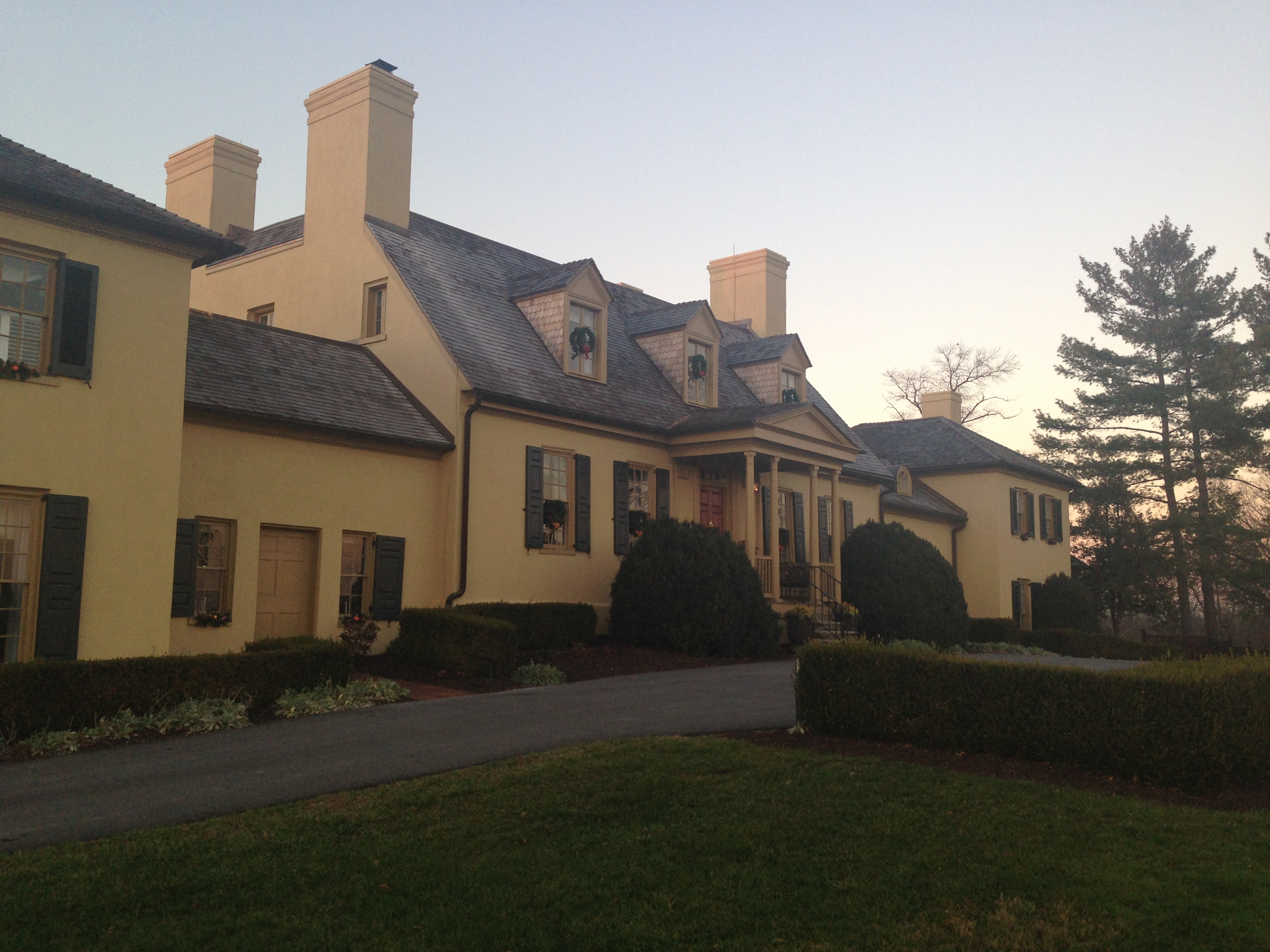 Belmont Estate, looking northwest at the front of the mansion.